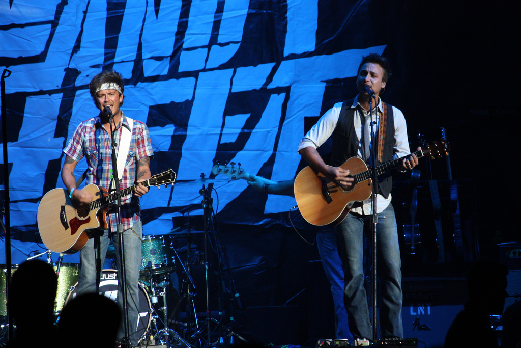 For more Love and Theft Concert Photos